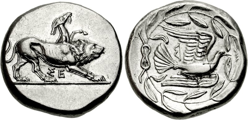 SIKYONIA, Sikyon. Circa 431-400 BC. AR Stater (12.16 g, 12h). Chimaera standing right; ΣE below / Dove flying right; bow above tail feathers; all within wreath.